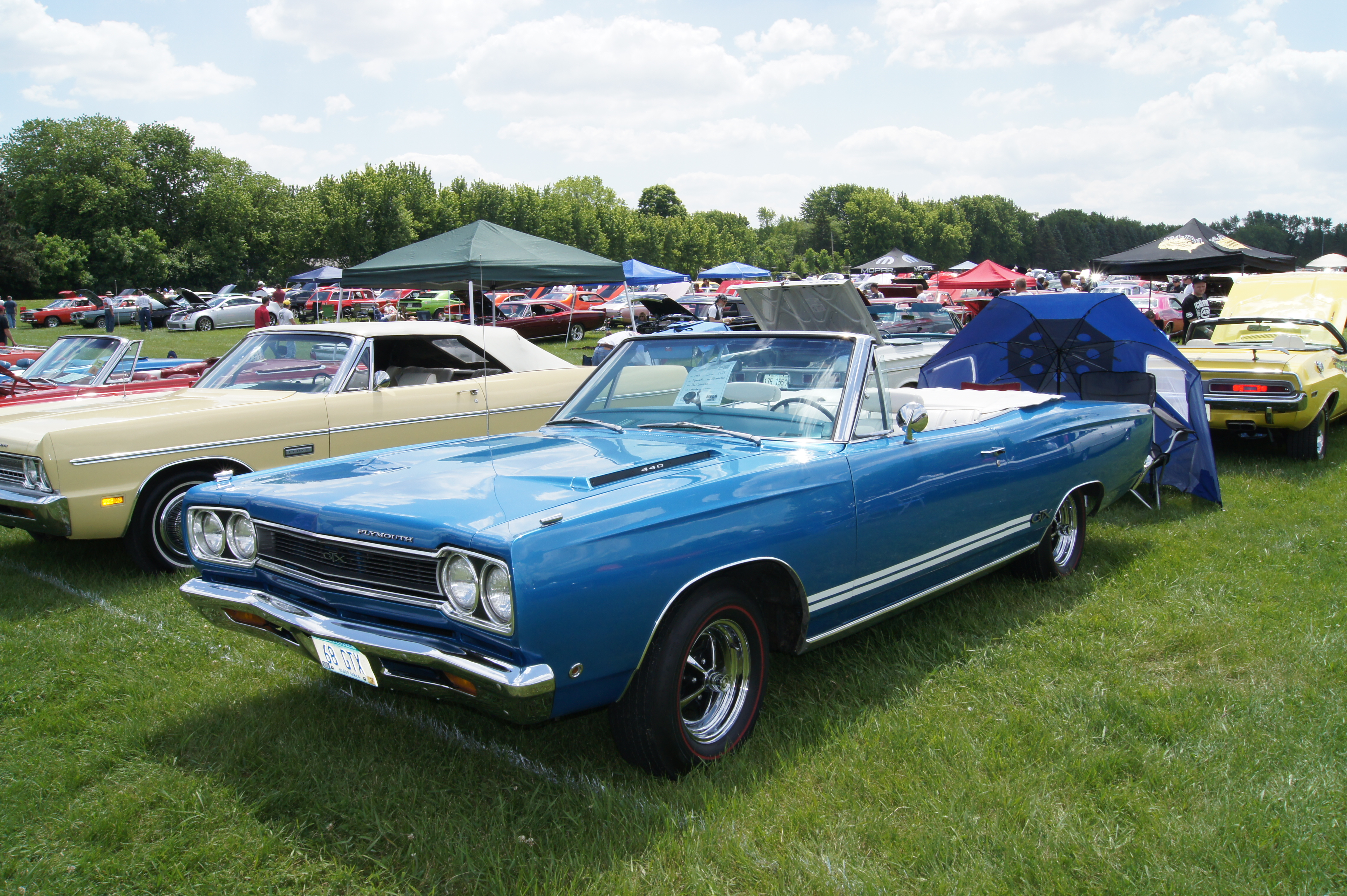 28th Annual Midwest Mopars in the Park June 2, 2012